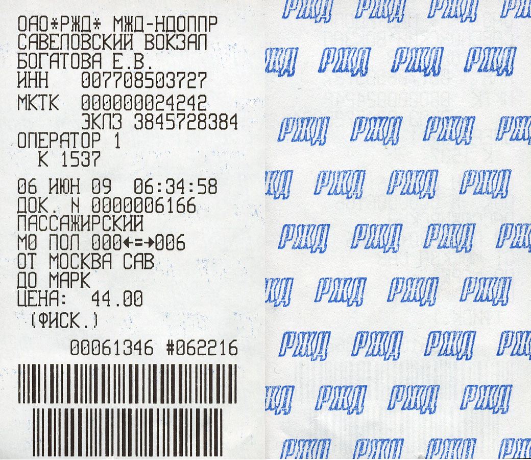 Platform "Mark", suburban ticket, Moscow, Russia